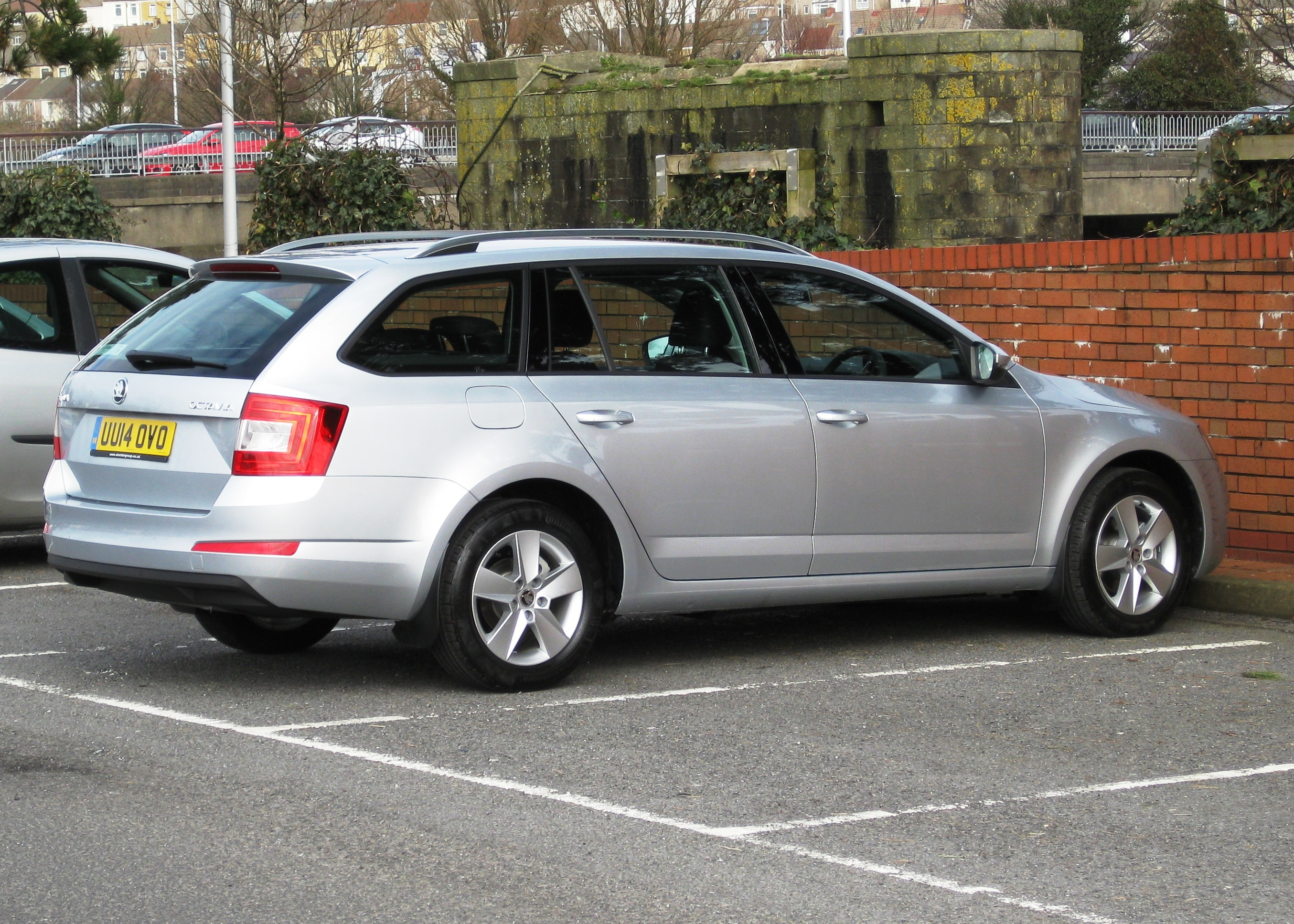 Skoda Octavia III Combi in Swansea